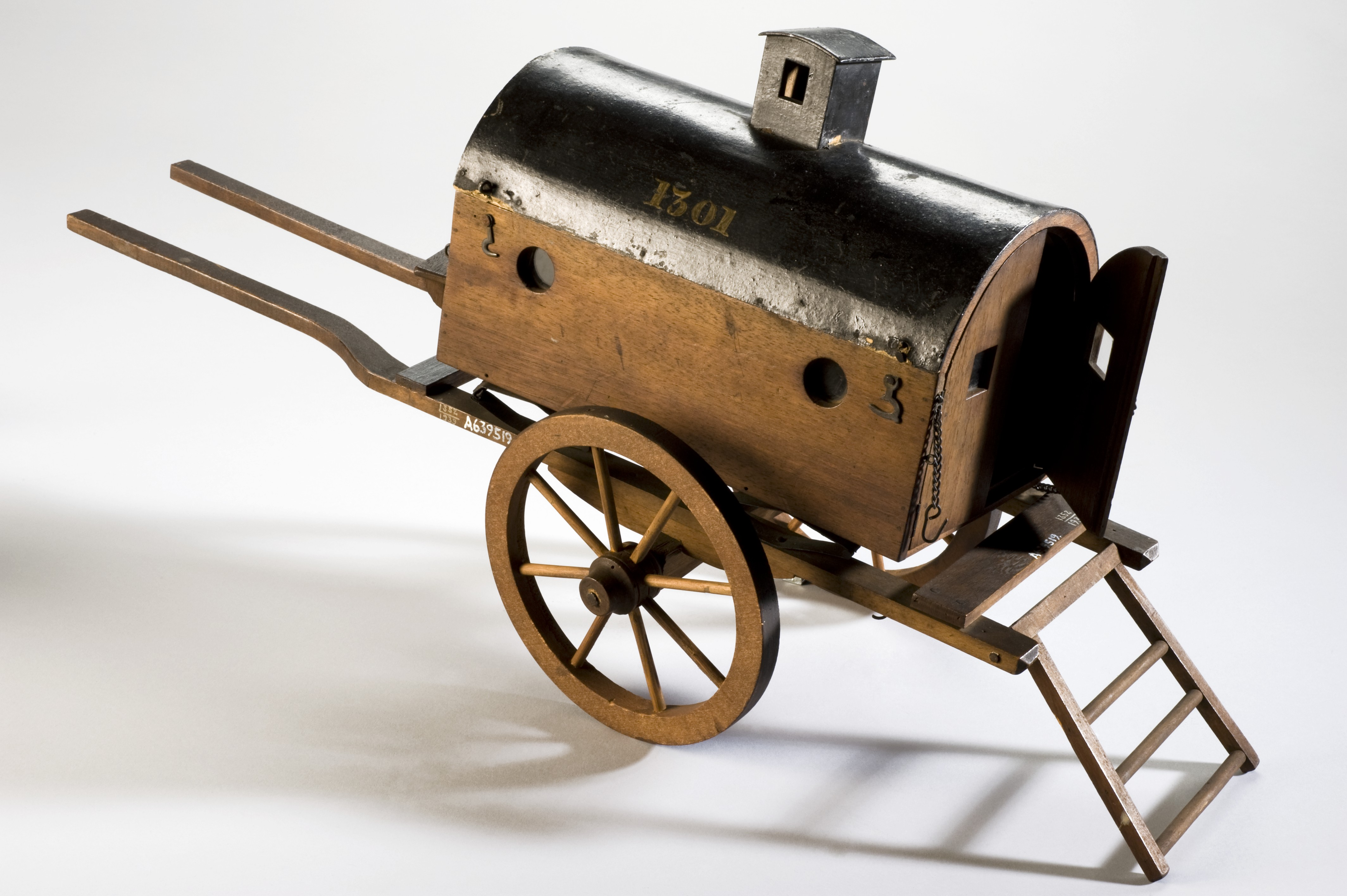 This is a model of the ‘flying ambulance’ invented in the 1790s by Dominique Jean Larrey (1766-1842). Named after the speed with which wounded men could be transported from the battlefield to field hospitals, the sheltered carriage was often used as a place to perform emergency surgery. Drawn by two or more horses, this two-wheeled carriage has space for two stretchered patients inside. Larrey also organised an ambulance corps of surgeons and orderlies and equipped them with first aid supplies. Before Larrey’s invention, men treated their own wounds or lay in agony until after the battle. maker: Unknown maker Place made: Europe Wellcome Images Keywords: field hospital; model - representation; Ambulances; ambulance